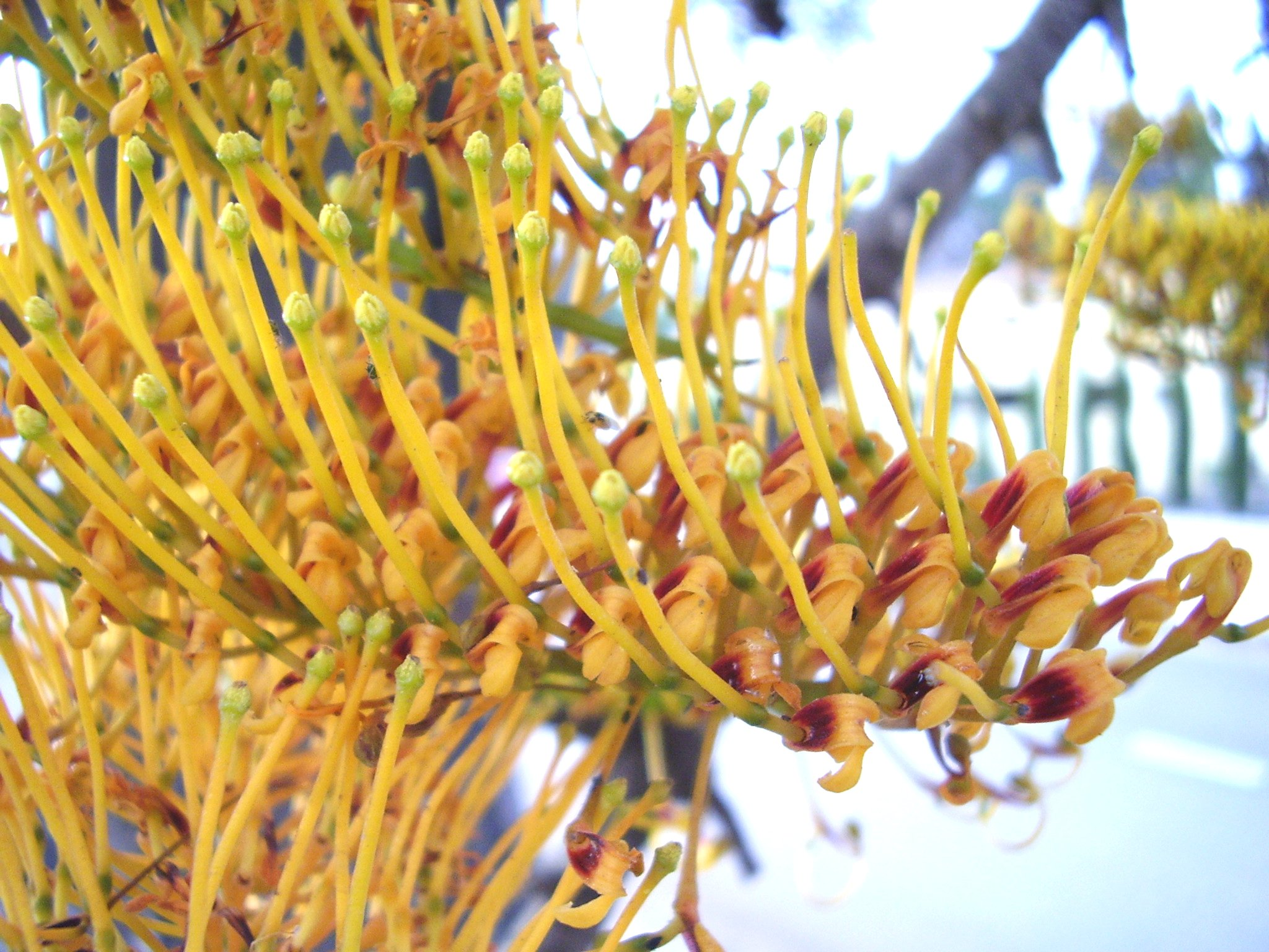 Grevillea robusta - flowers